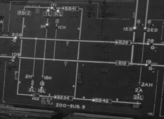 Excerpt of photograph 712B-3, showing 138 kV one-line diagram of Zoo Sub 9, circa 1997. This is part of the electrical supply system for the Amtrak Northeast Corridor railroad line; installed for the Pennsylvania Railroad in 1935 at Thirtieth Street Station, Philadelphia. The schematic of the 44 kV system has already been removed and covered in black paint or electrical tape. 138 kV circuit breakers, numbered R19 and R29, are designated by the enclosing rectangle. 138 kV circuit breakers are also visible at Perryville, MD; and Thorndale, PA. These locations correspond to the locations of Phase Break indicators.